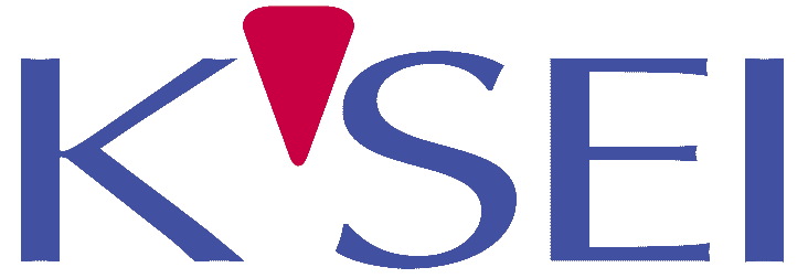 The logotype of Keisei Electric Railway Template:ImagesCA7MT02V